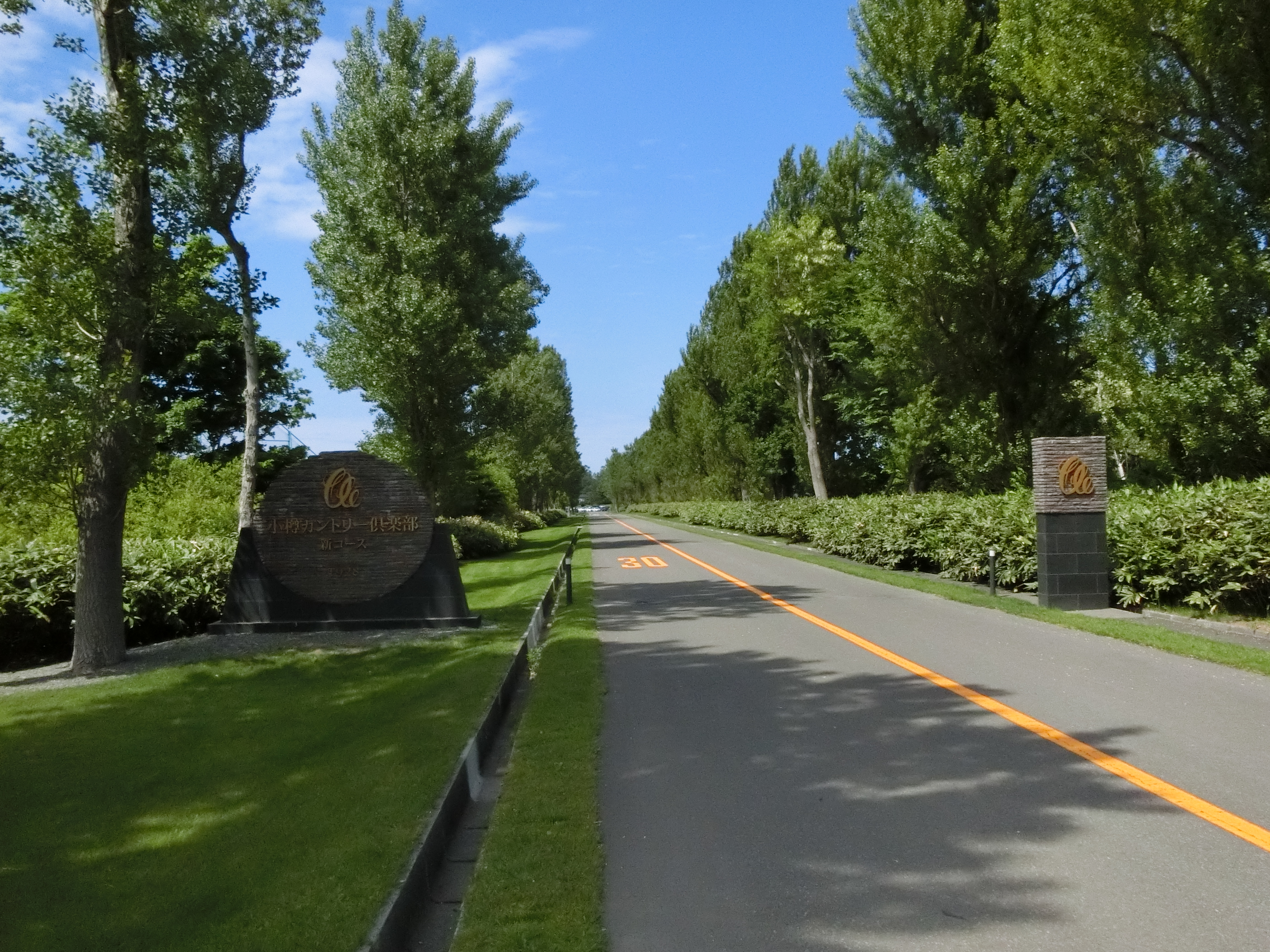 Otaru Country Club new course located in Zenibako, Otaru, Hokkaido